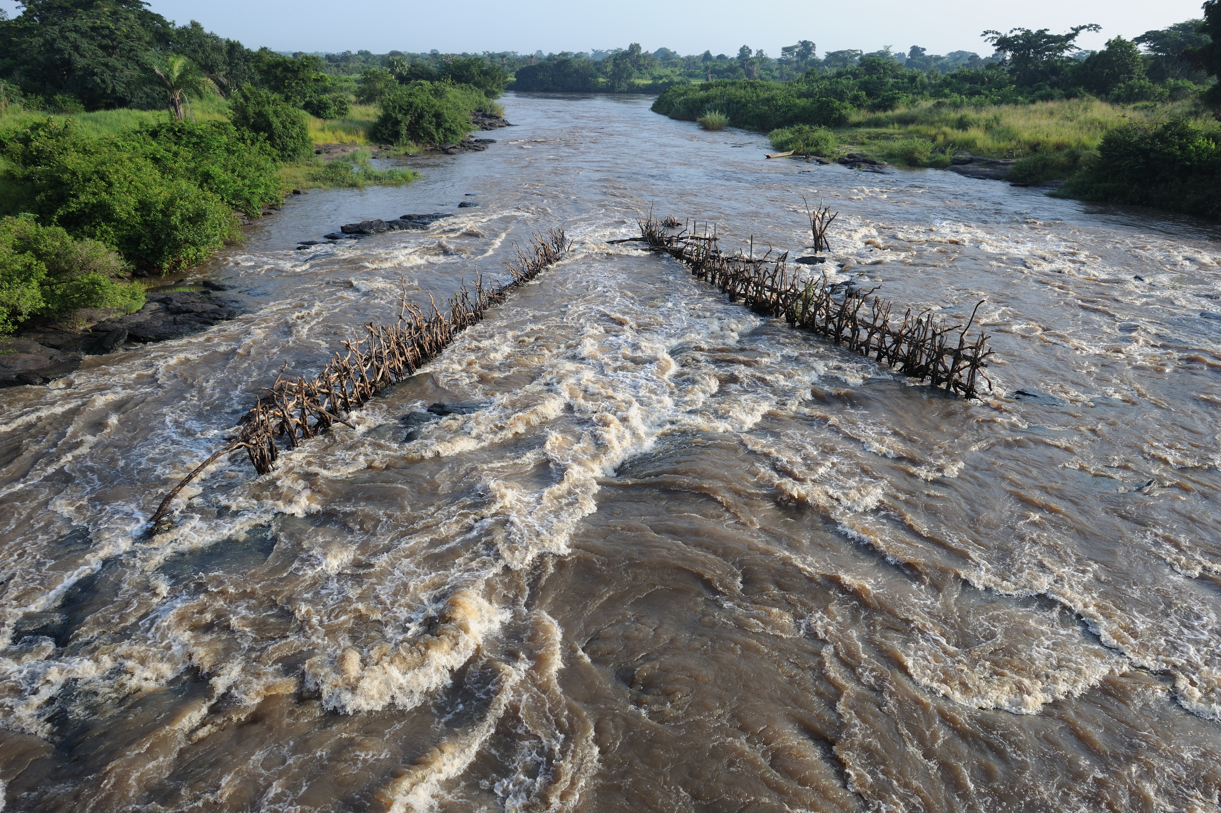 Running through the centre of Dungu is the Uele river.